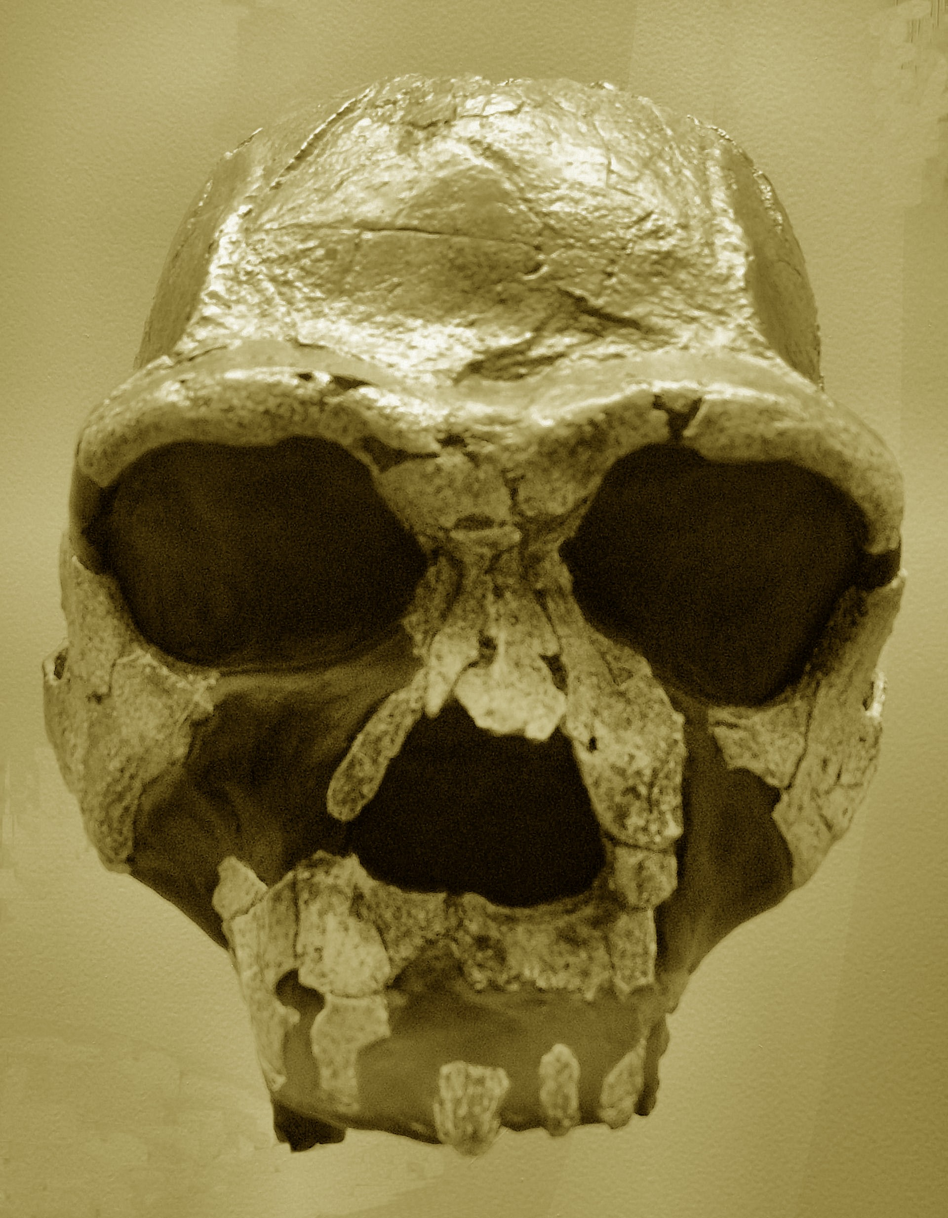 Homo erectus KNM-ER 3733 (replica, Senckenberg Museum, Frankfurt am Main, Germany)